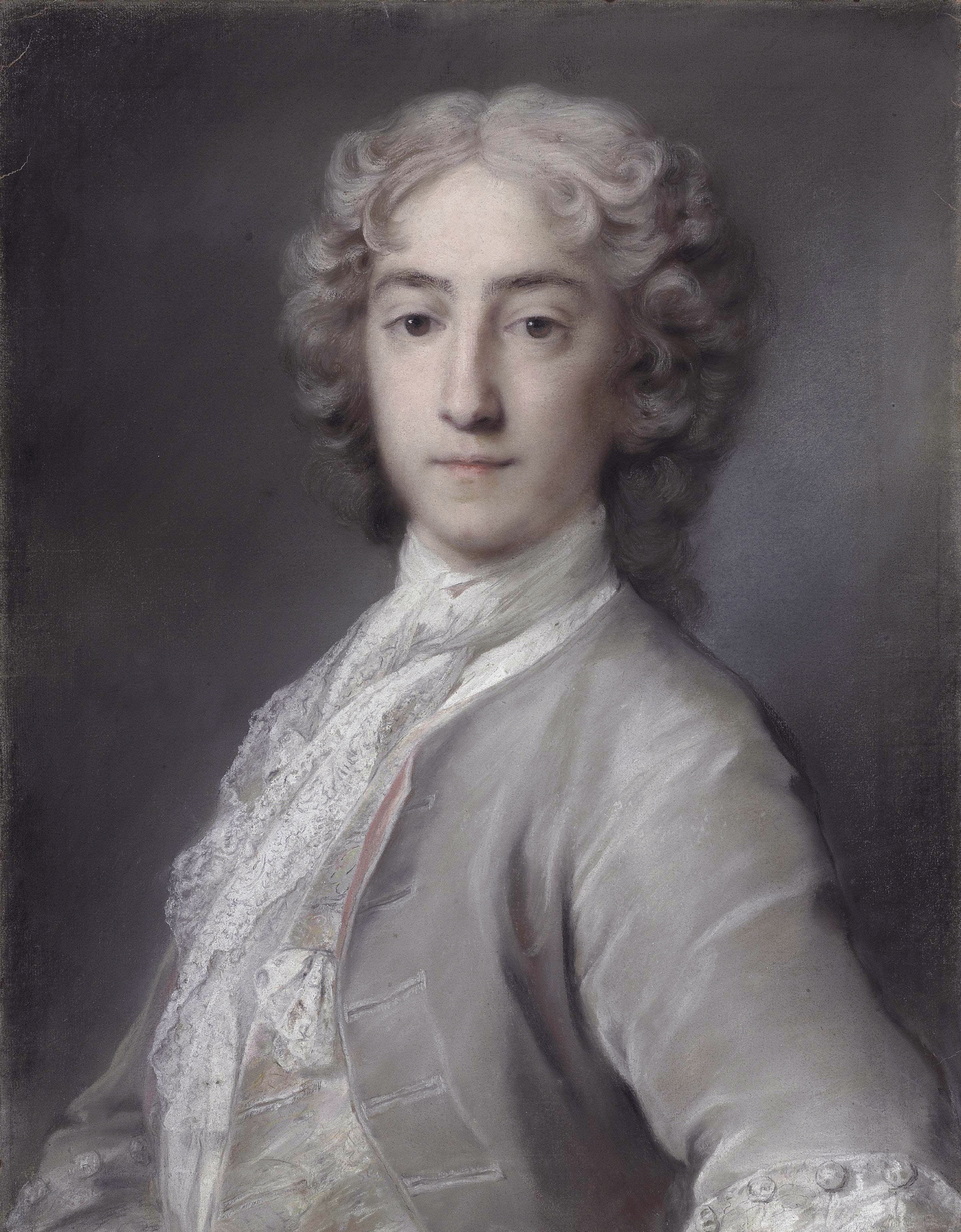 half-length, in a grey velvet coat and white stock